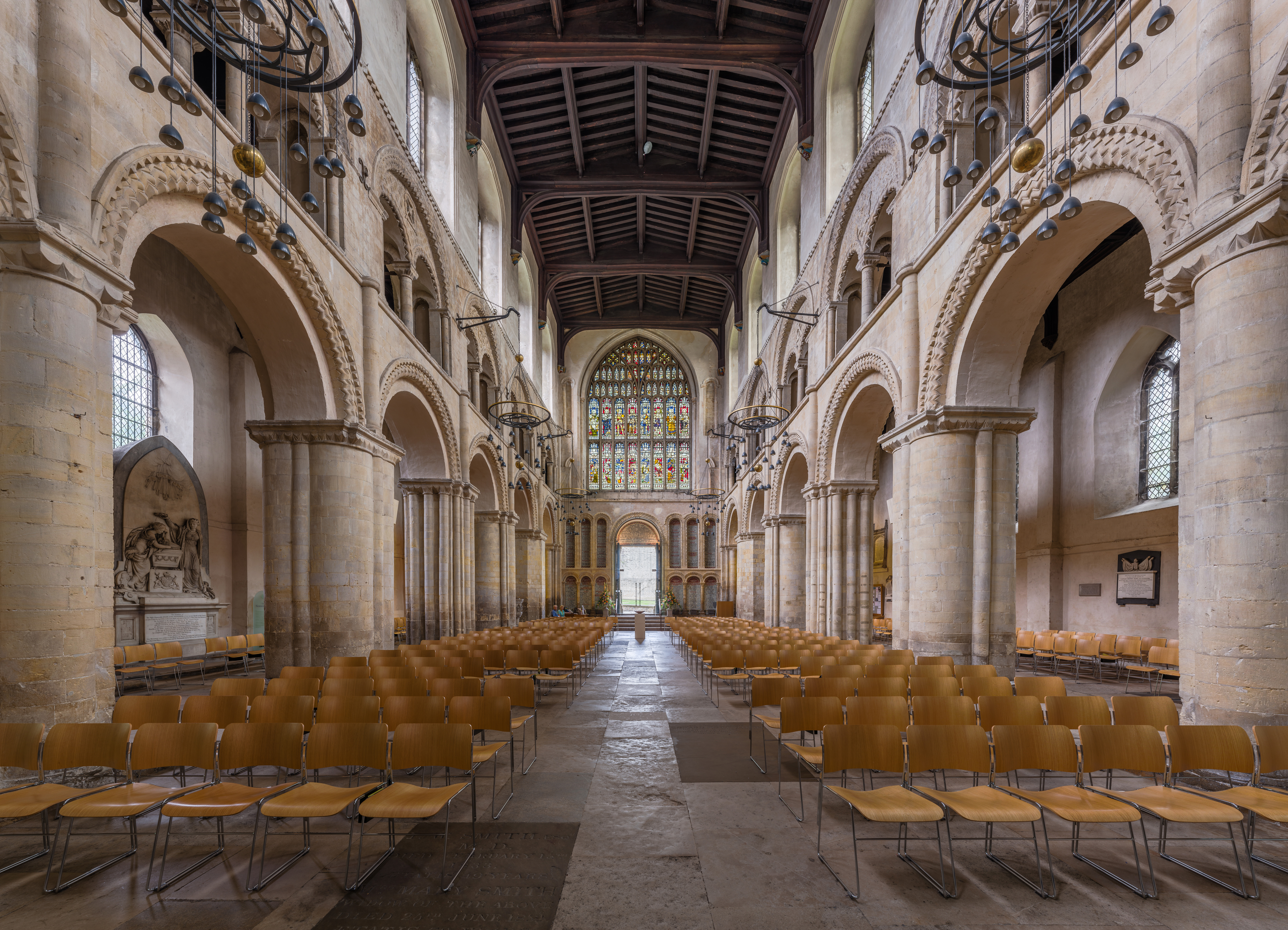 The nave of Rochester Cathedral in Kent, england, facing west towards the entrance.